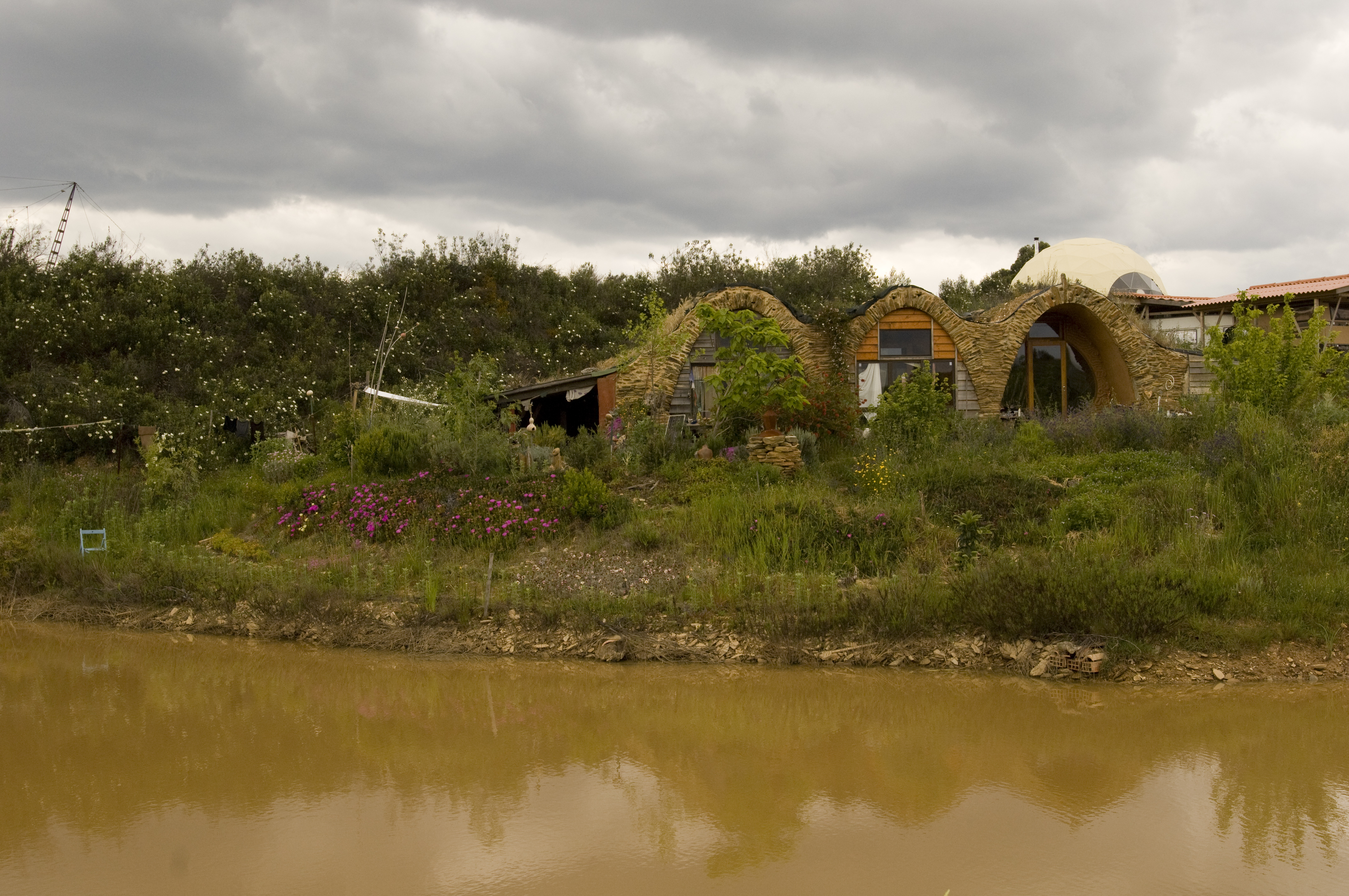 Experimental Building at Aldeia da Luz in Tamera